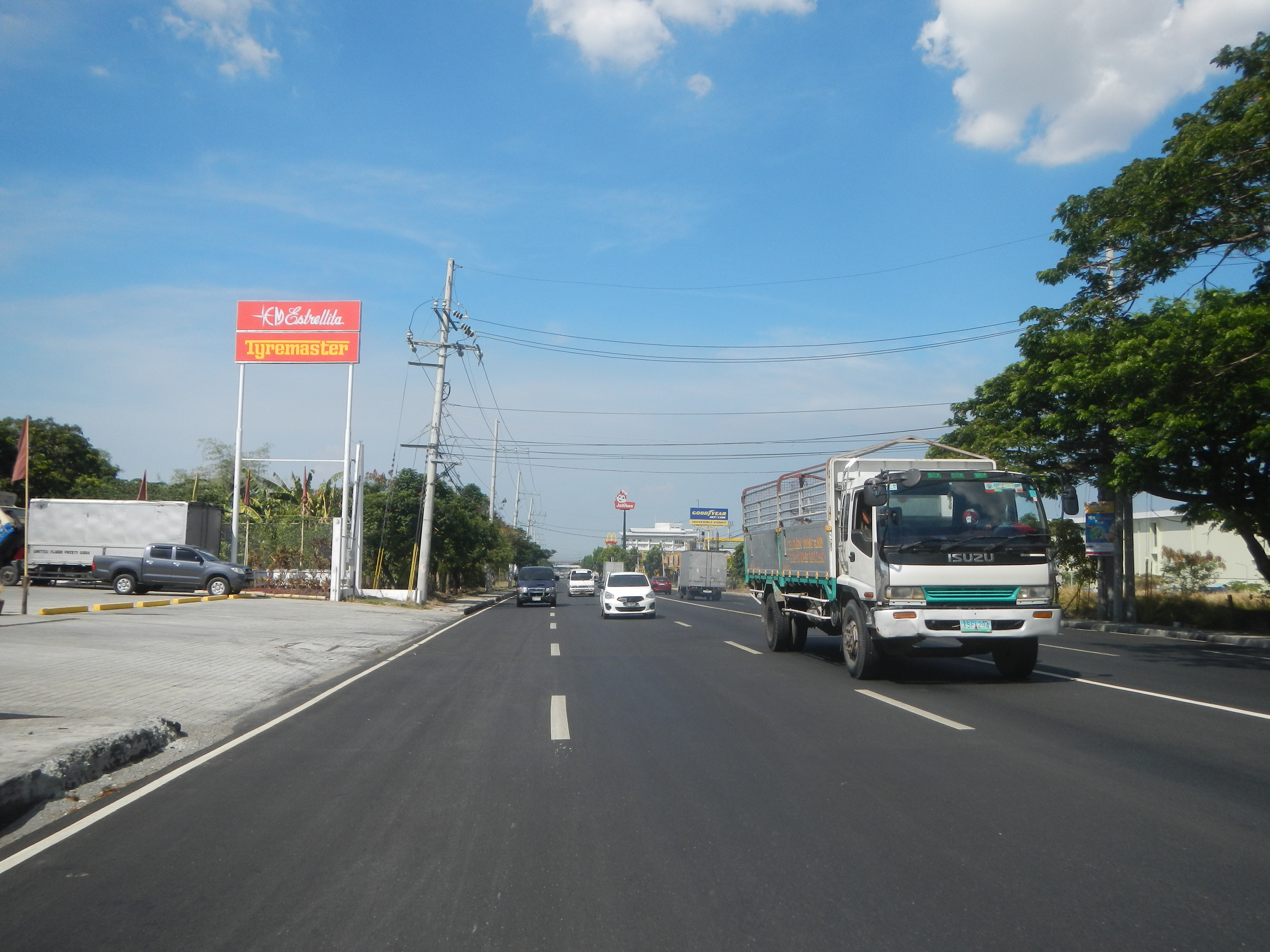 Governors Drive 14°19'32"N 121°3'57"E Maduya 14°18'47"N 121°3'51"E Governor's Drive South Luzon Expressway Barangay Maduya to Bancal, Carmona, Cavite (Note: Judge Florentino Floro, the owner, to repeat, Donor Florentino Floro of all these photos hereby donate gratuitously, freely and unconditionally Judge Floro all these photos to and for Wikimedia Commons, exclusively, for public use of the public domain, and again without any condition whatsoever).